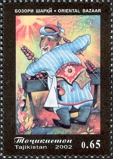 Oriental Bazaar - The old man prepares a shashlik. Stamps of Tajikistan